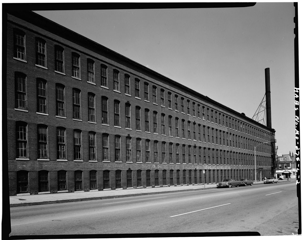 1201 RUSSELL, INTERNATIONAL HAT CO. WAREHOUSE - Soulard Neighborhood Historic District, Saint Louis, Independent City, MO